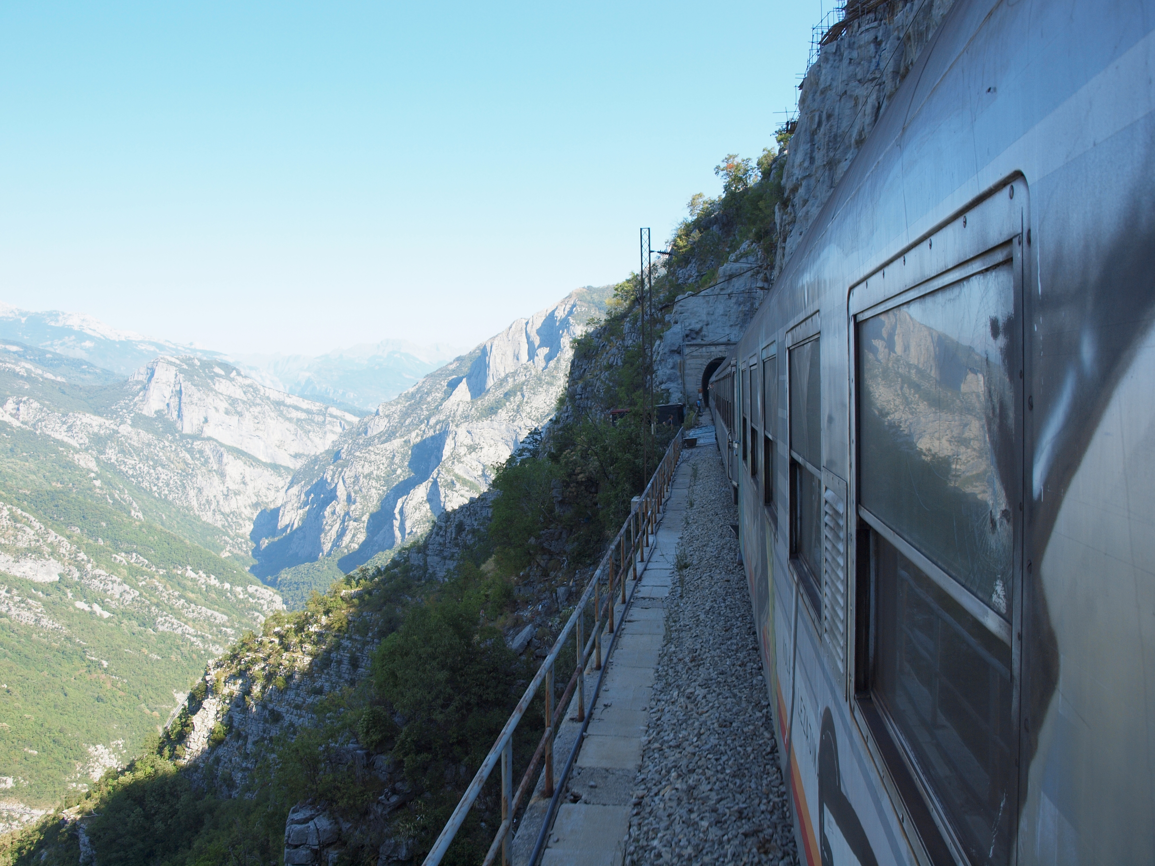 Moraca valley